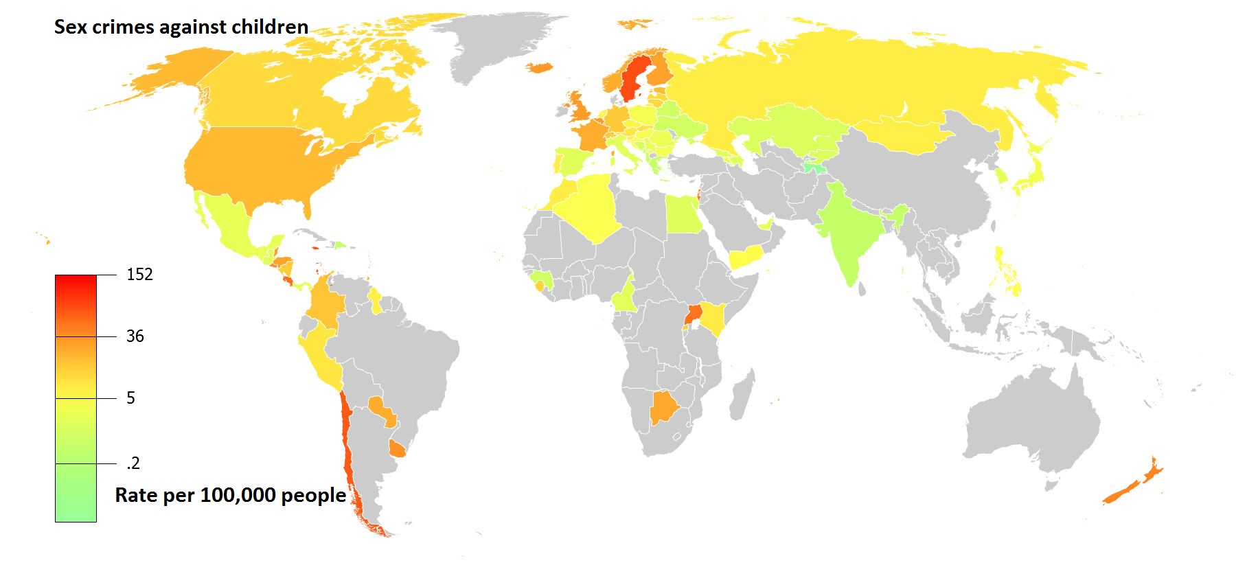 Reported sexual crimes against children. Sexual abuse rate of children per 100,000 people, per year, select countries of the world, 2010-2012 Gray color: data not provided by the country Definition: "Sexual Offences against Children" means crimes of a sexual nature committed against children (of age below the age of consent in that nation). Includes child pornography offences, procuring a child for prostitution, statutory rape with a person below the age of consent and other offences related to the sexual exploitation of children. Note that not all sexual crimes against children are reported, and that not all legal systems count sexual crimes against children the same way, and the actual rates may differ starkly from the reported rates. This may give incorrect impressions about the real number of sexual crimes against children in countries like Sweden. Note: Any cross-national comparisons should be conducted with caution because of the differences that exist between the legal definitions of age of consent. For example, the age of consent in the Middle East, North Africa, Central Asia and Islamic nations elsewhere is lower than in Europe, US, Japan, South Korea, India and New Zealand. Source: United Nations Office on Drugs and Crime Additional data for United States is available from U.S. Department of Justice